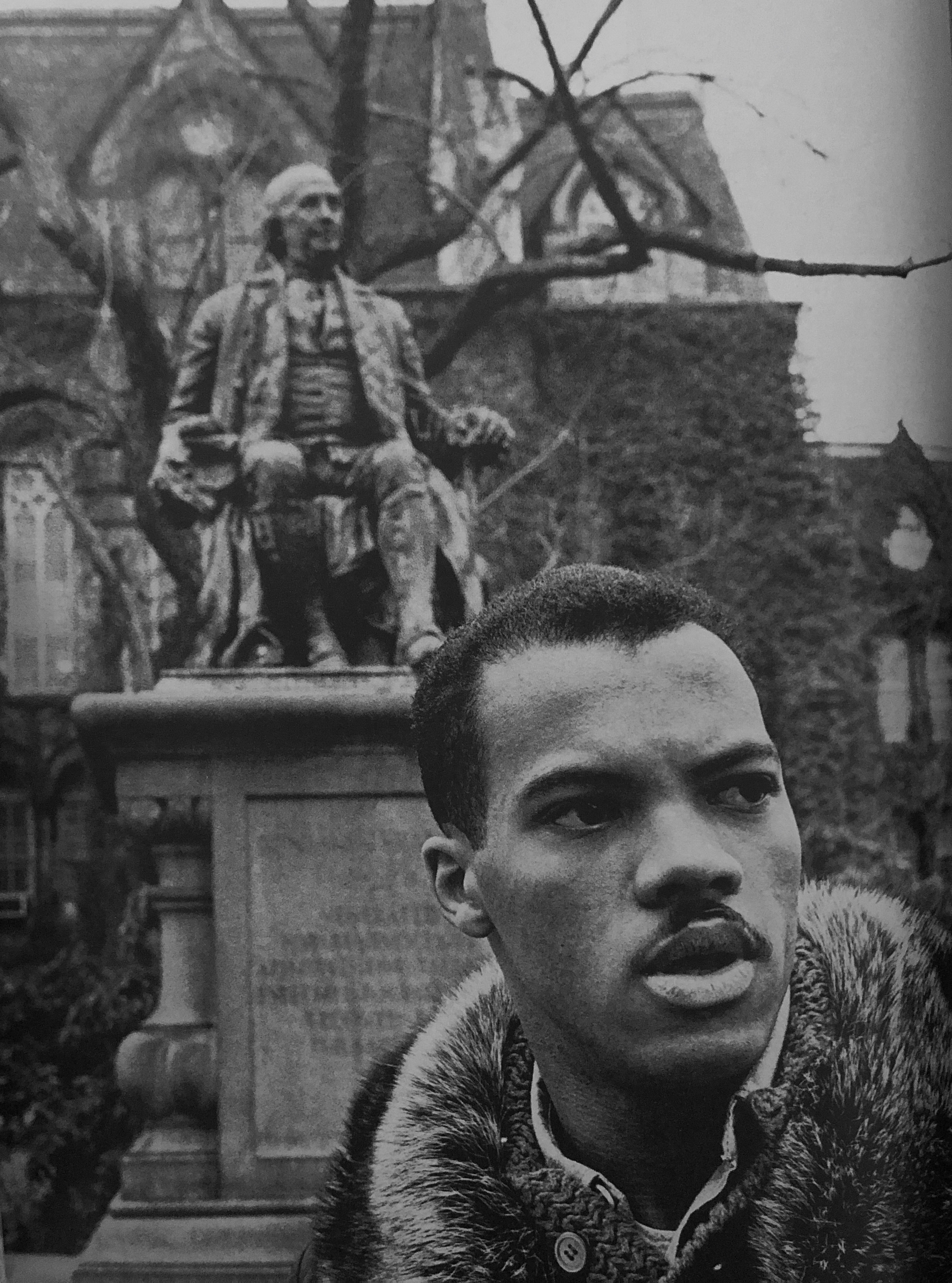 Author John Edgar Wideman in front of a statue of Benjamin Franklin on the campus of the University of Pennsylvania, 1963. This photo appeared in LOOK Magazine to illustrate a profile of Wideman after he was named a Rhodes Scholar.